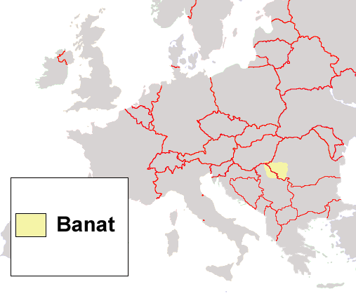 Location of Banat. Created from